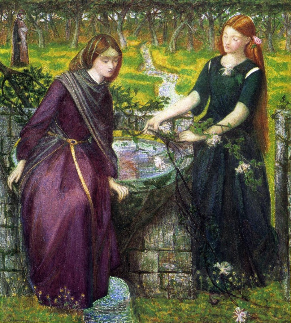 A scene from Canto XXVII, Purgatorio, Divina Commedia.